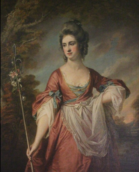 Portrait of Elizabeth Cust, wife of Philip Yorke (1743–1804), Welsh politician and antiquarian.